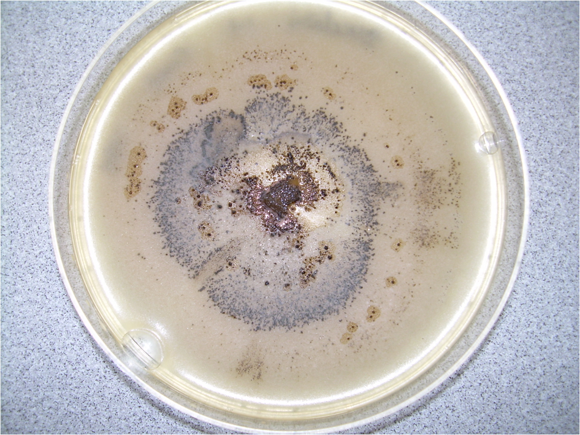 Environmental isolate of Monilia growing on a potato dextrose agar plate. Identified using Barnett, H. L. & Hunter, B. B. (1998) Illustrated Genera of Imperfect Fungi. APS Press: St. Paul, MN; pp. 72–3 ISBN 0-89054-192-2.